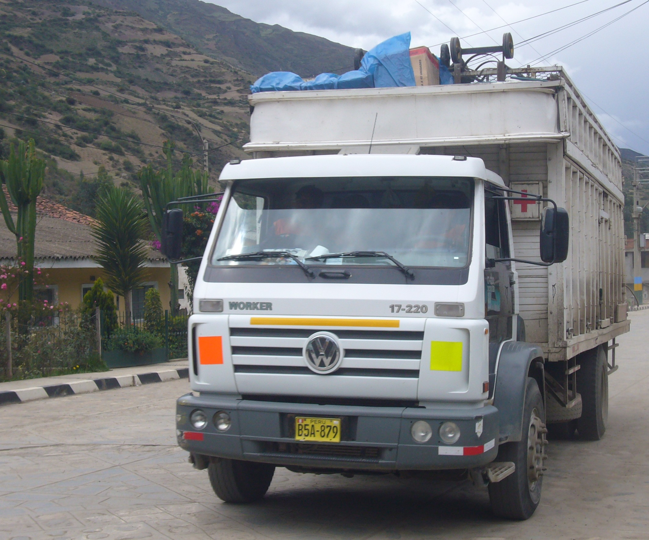 a Volkswagen Worker in Chavin de Huantar, Peru.